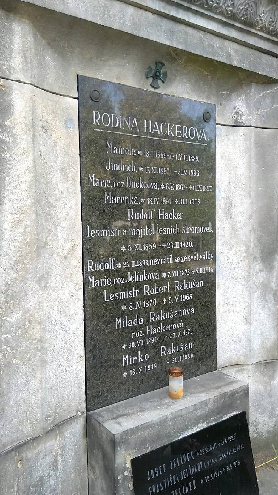 Detail of gravestone on the grave of Hacker Family